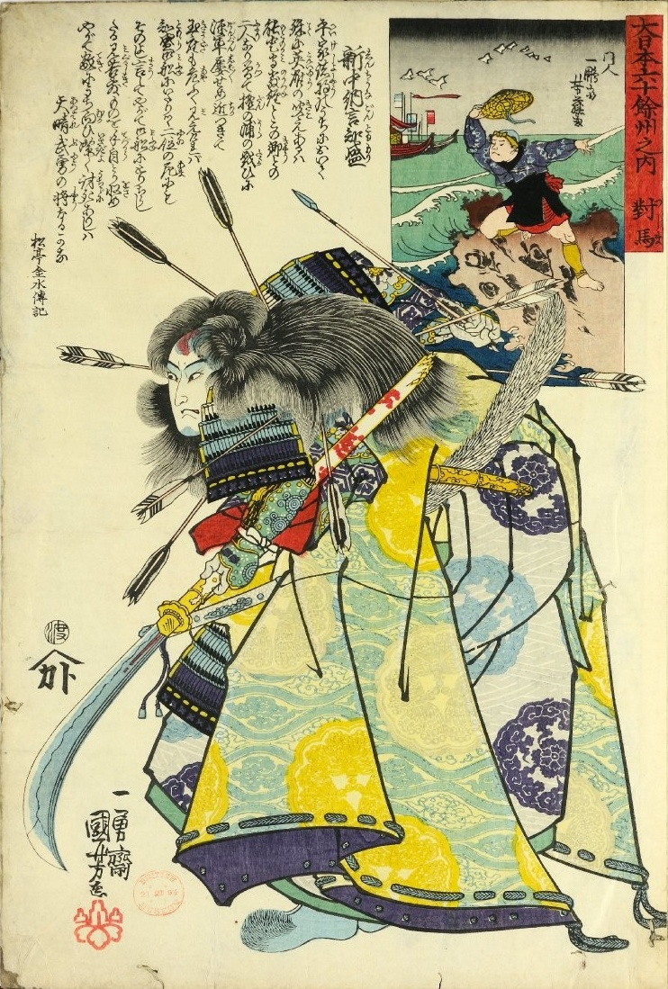 Woodblock print by Kuniyoshi, signed ’Ichiyūsai Kuniyoshi ga’, series ’The 60 odd provinces of Japan’, no. 68, Tsushima, depicting Taira no Tomomori, c. 1845, publisher Kagaya Yasubei.